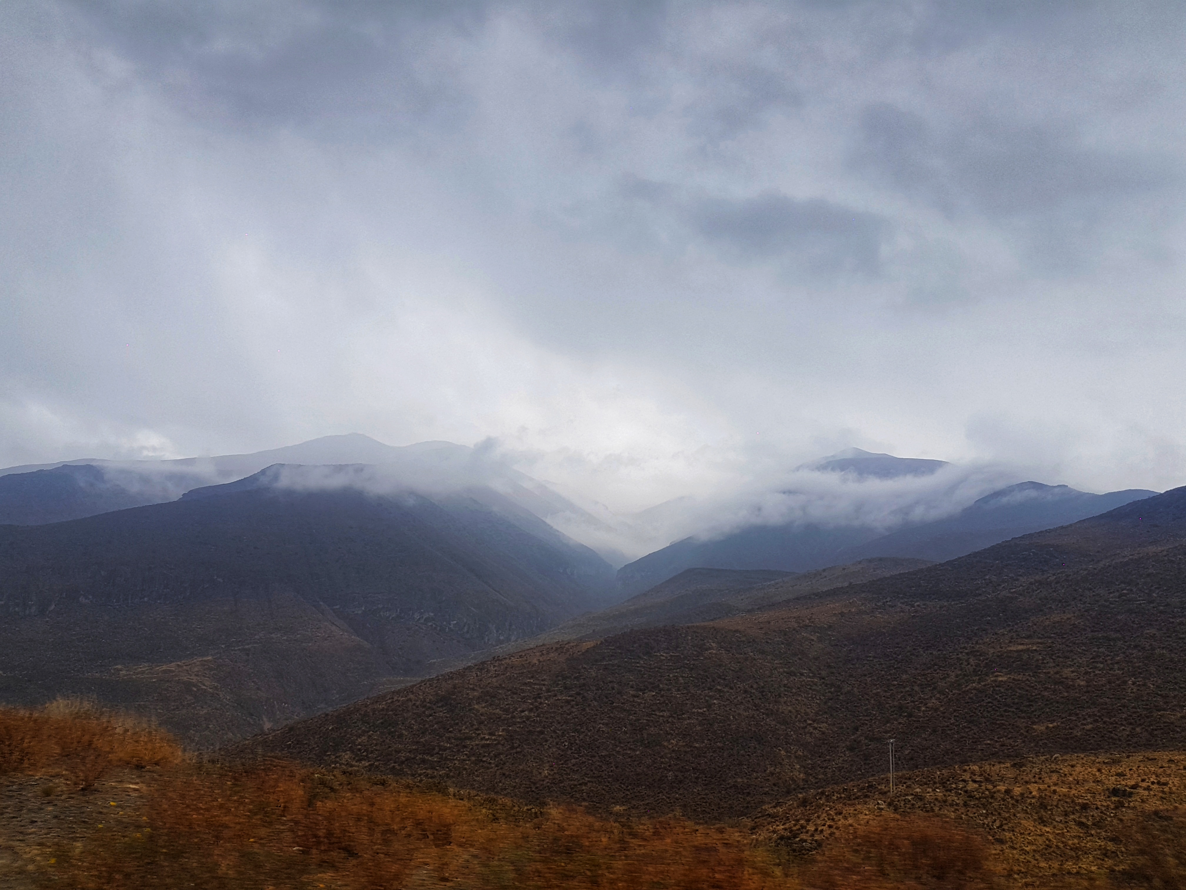 Chain of mountains are shown on the route